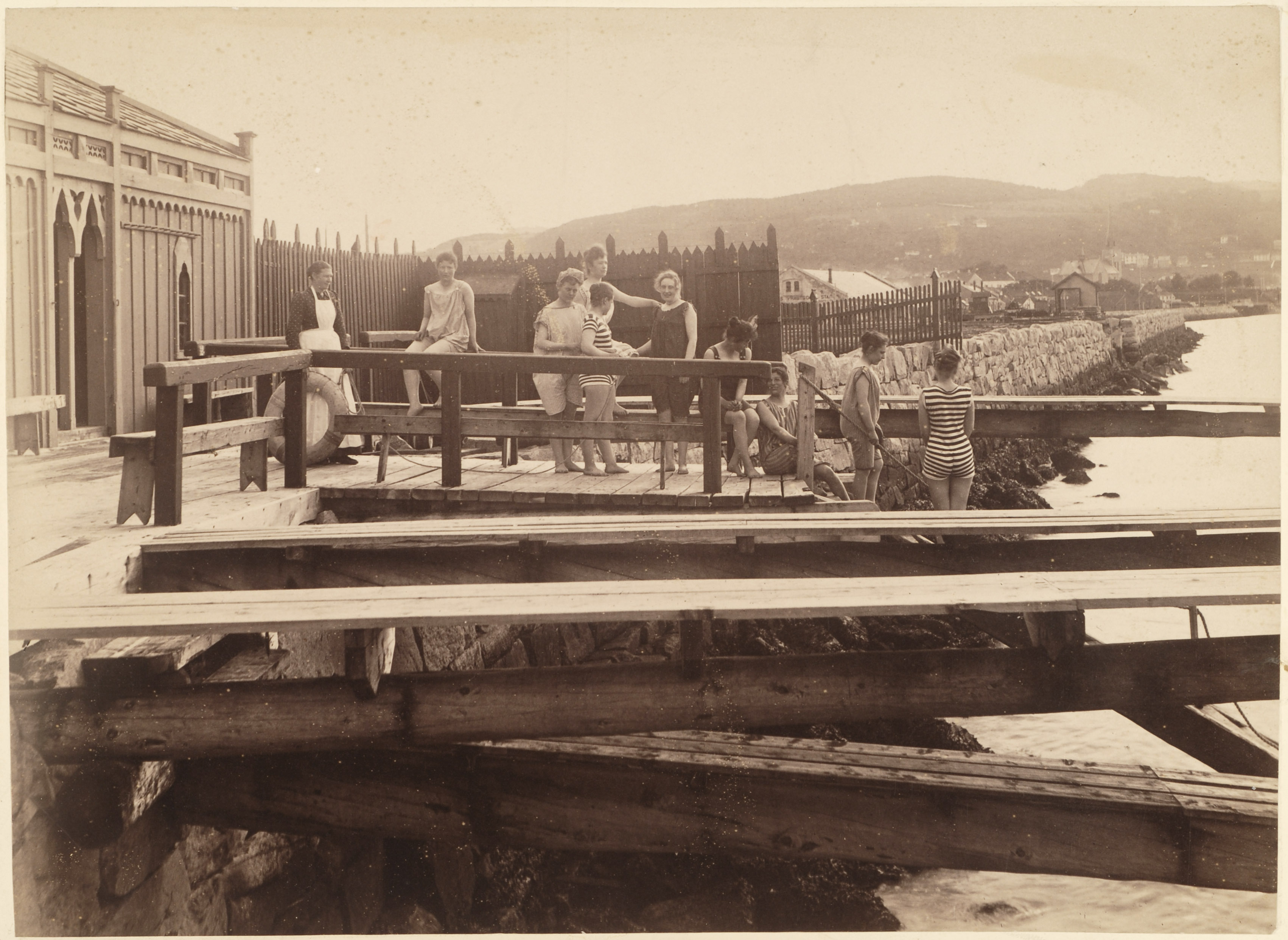 Sea water bath in Trondheim, Norway. Established in 1858. Still in use, although it was moved to another site in 1880, due to heavy contamination in the canal